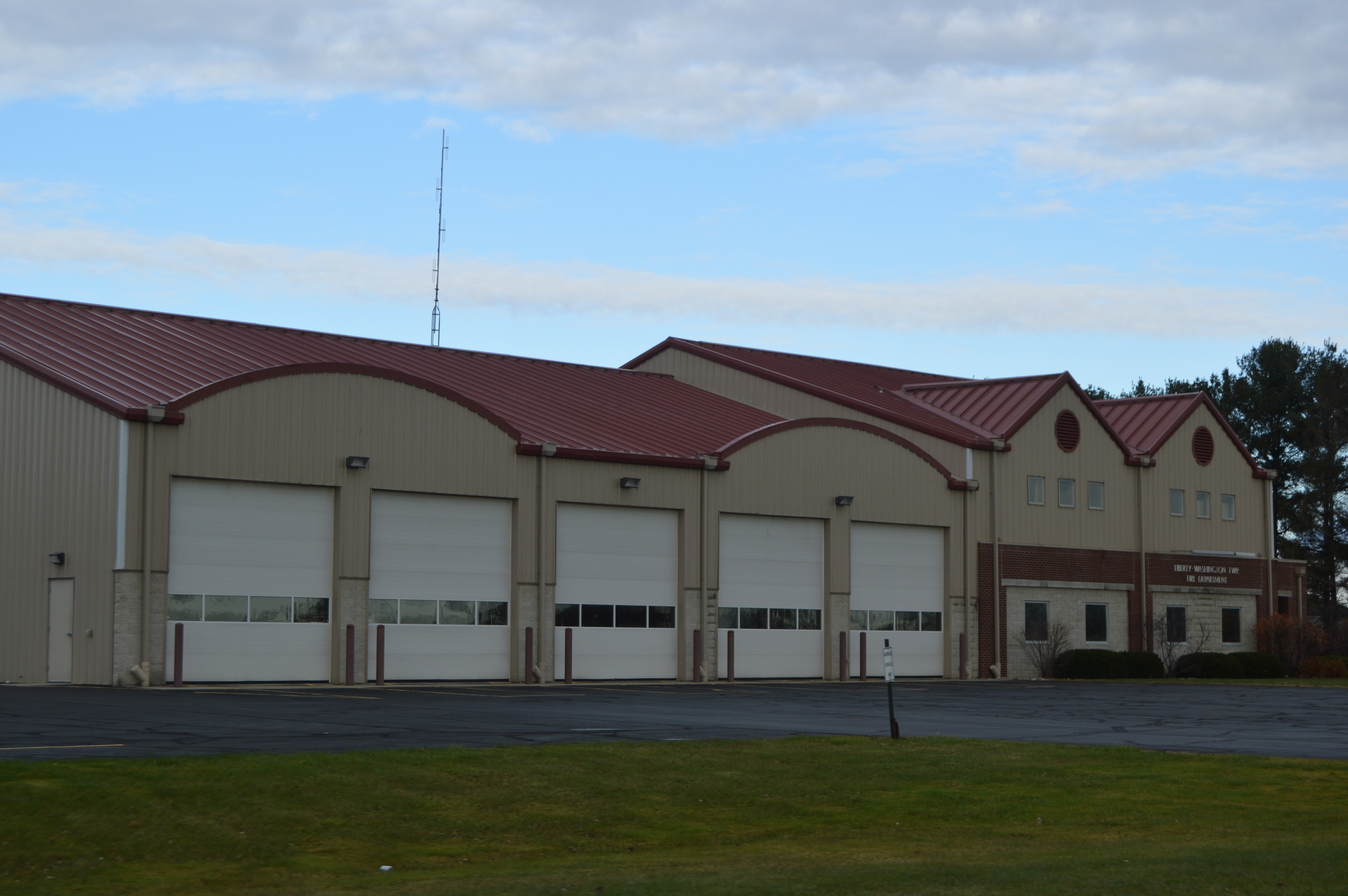 Front of the Liberty-Washington Township Fire Department, located on Road 8 immediately north of the Cherry Street intersection, just northwest of Liberty Center, in eastern Liberty Township, Henry County, Ohio, United States.